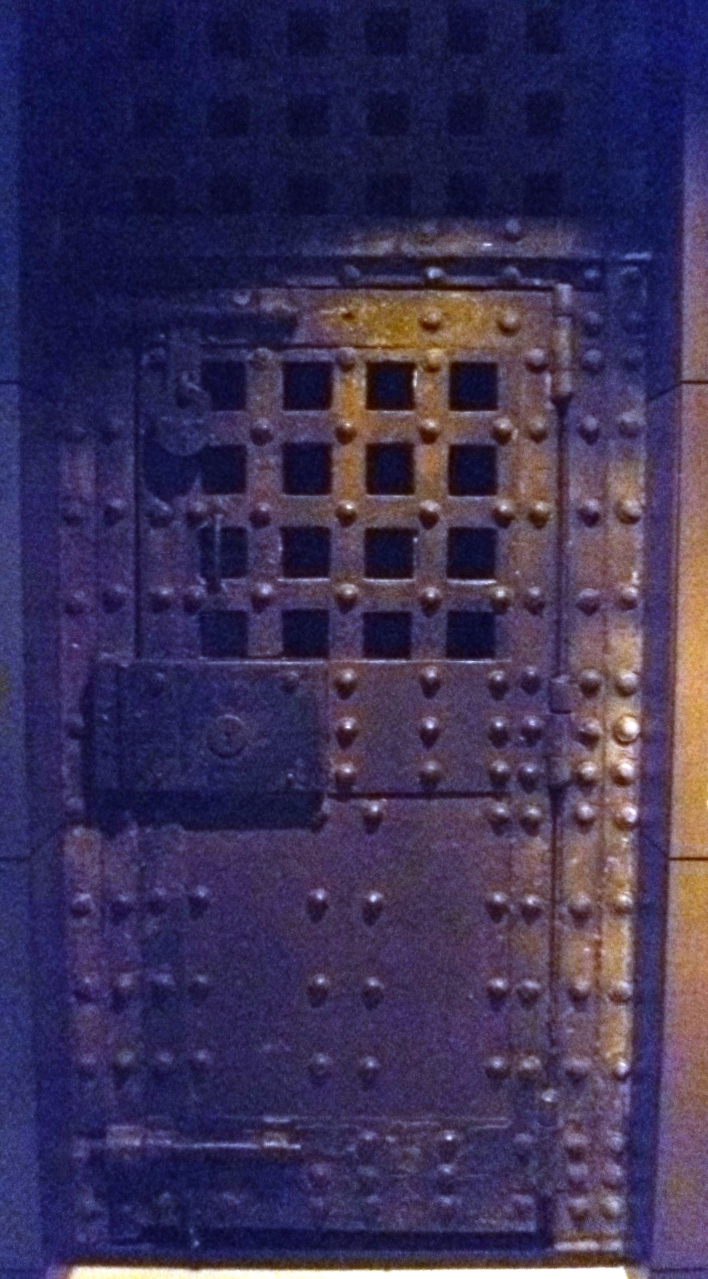 A door from Newgate Prison after it was rebuilt following the Gordon Riots. It can be seen in the Museum of London.